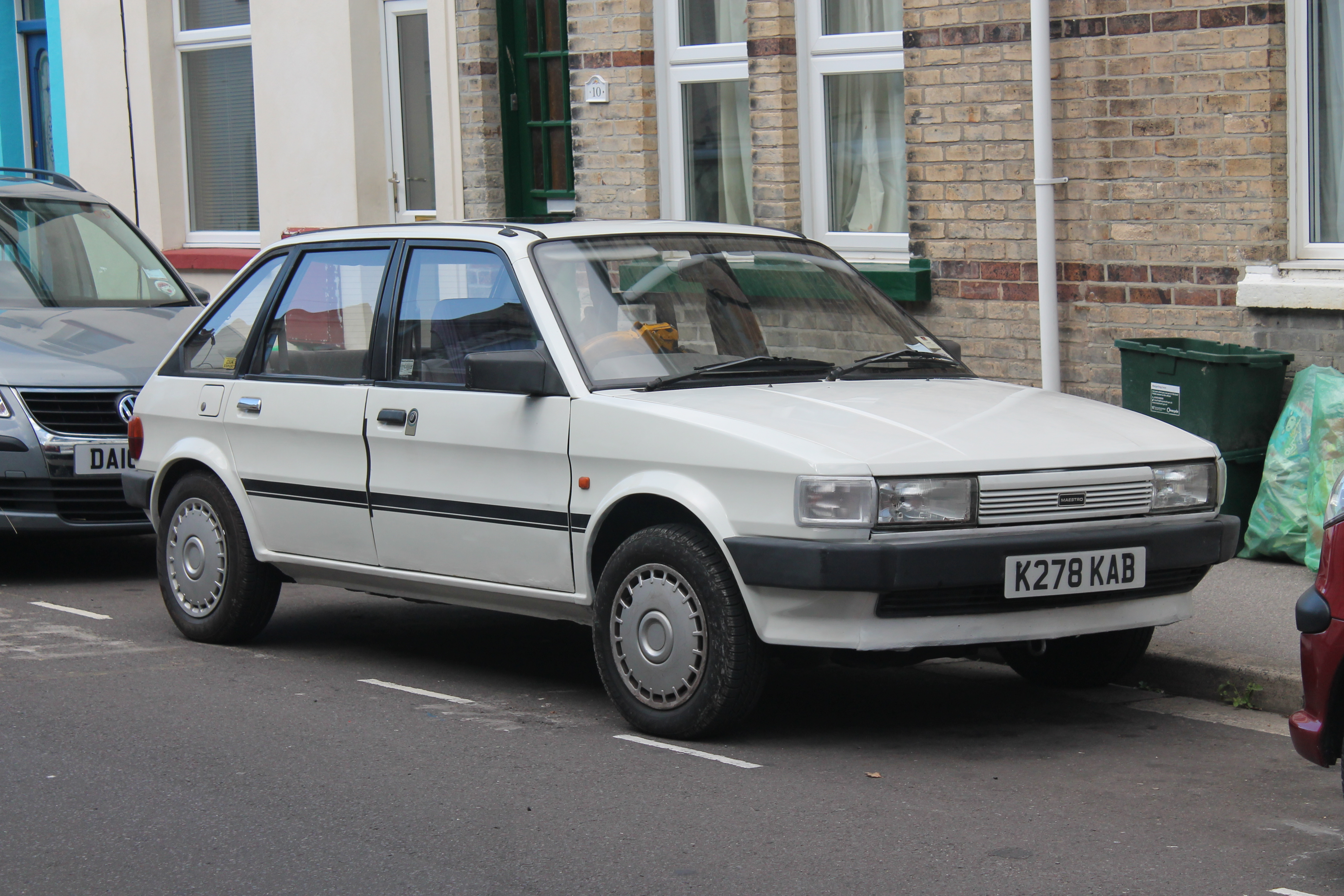 What a classic! Not! One of the worst cars ever built, and I was lucky enough to find one not on a scrap heap! This K reg example is "high spec" with its 2 litre turbo diesel engine and trim level "clubman". Looking (surprisingly) good for its age, and the build quality. Very pleased to spot this. The tax expires in October of this year, so I wonder if it'll be renewed? Seen in Weymouth, Dorset, 6/9/2013